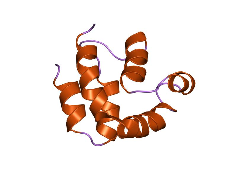 Cartoon representation of the molecular structure of protein registered with 1a1z code.